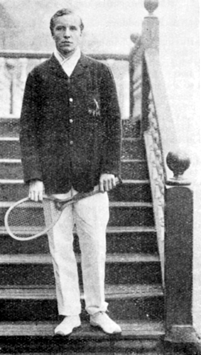 Kenneth Powell (1885-1915), English athlete and tennis player, participant in the 1908 Olympics and 1912 Olympics